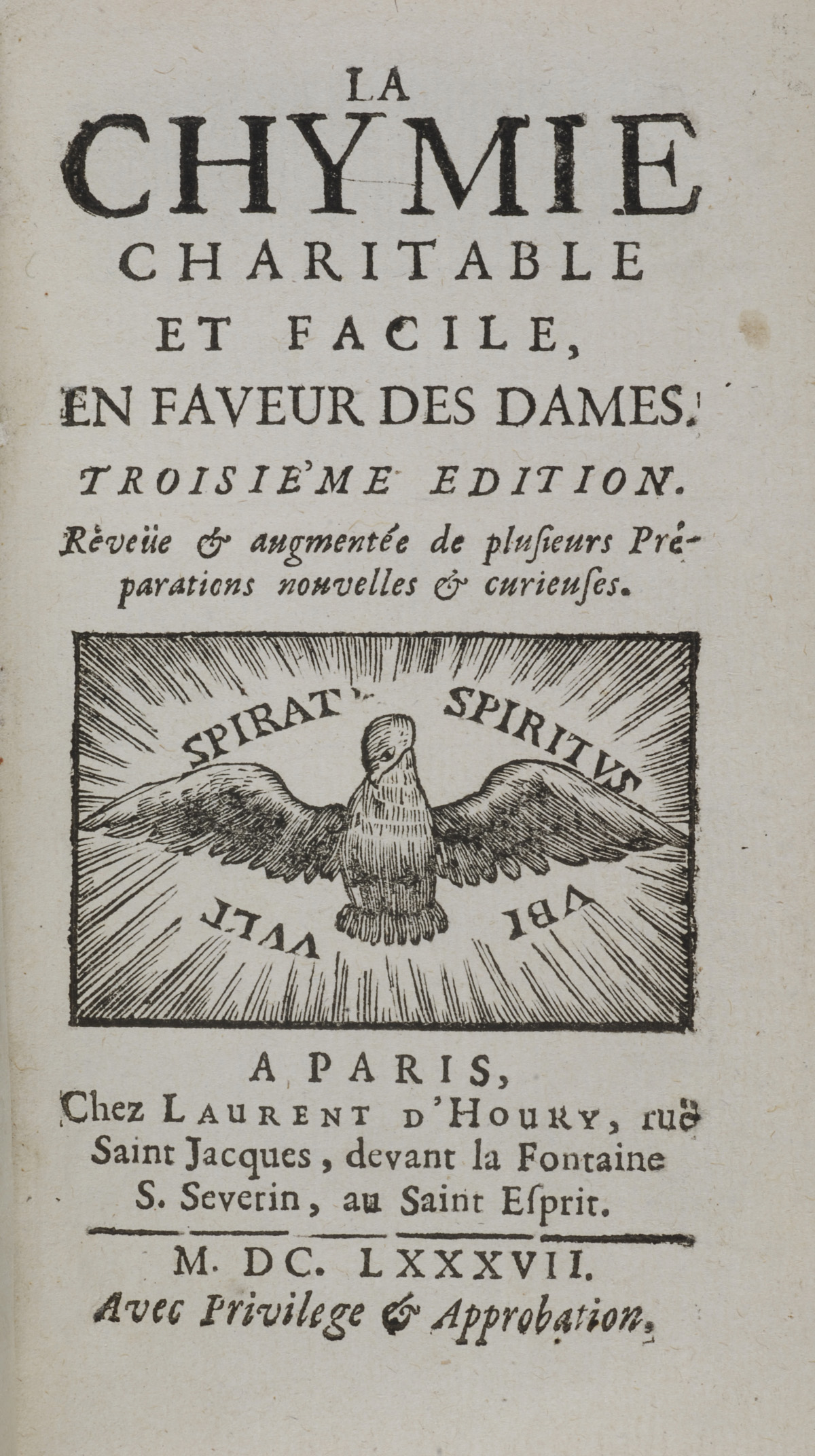 Title page from La chymie charitable et facile, en faveur des dames by Marie Meurdrac. Paris : L. d'Houry, 1687.